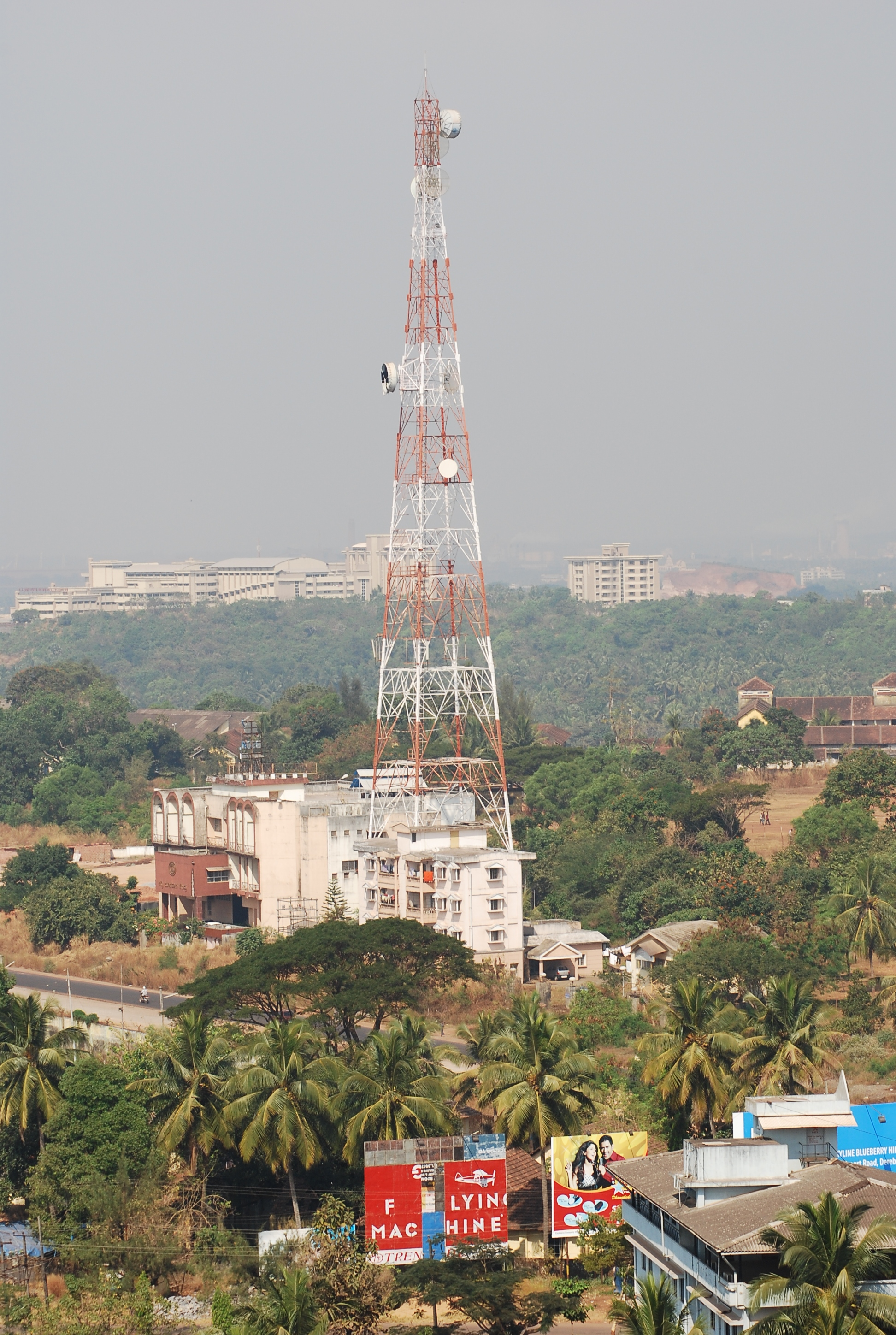 BSNL Microwave Tower at Kadri, Mangalore